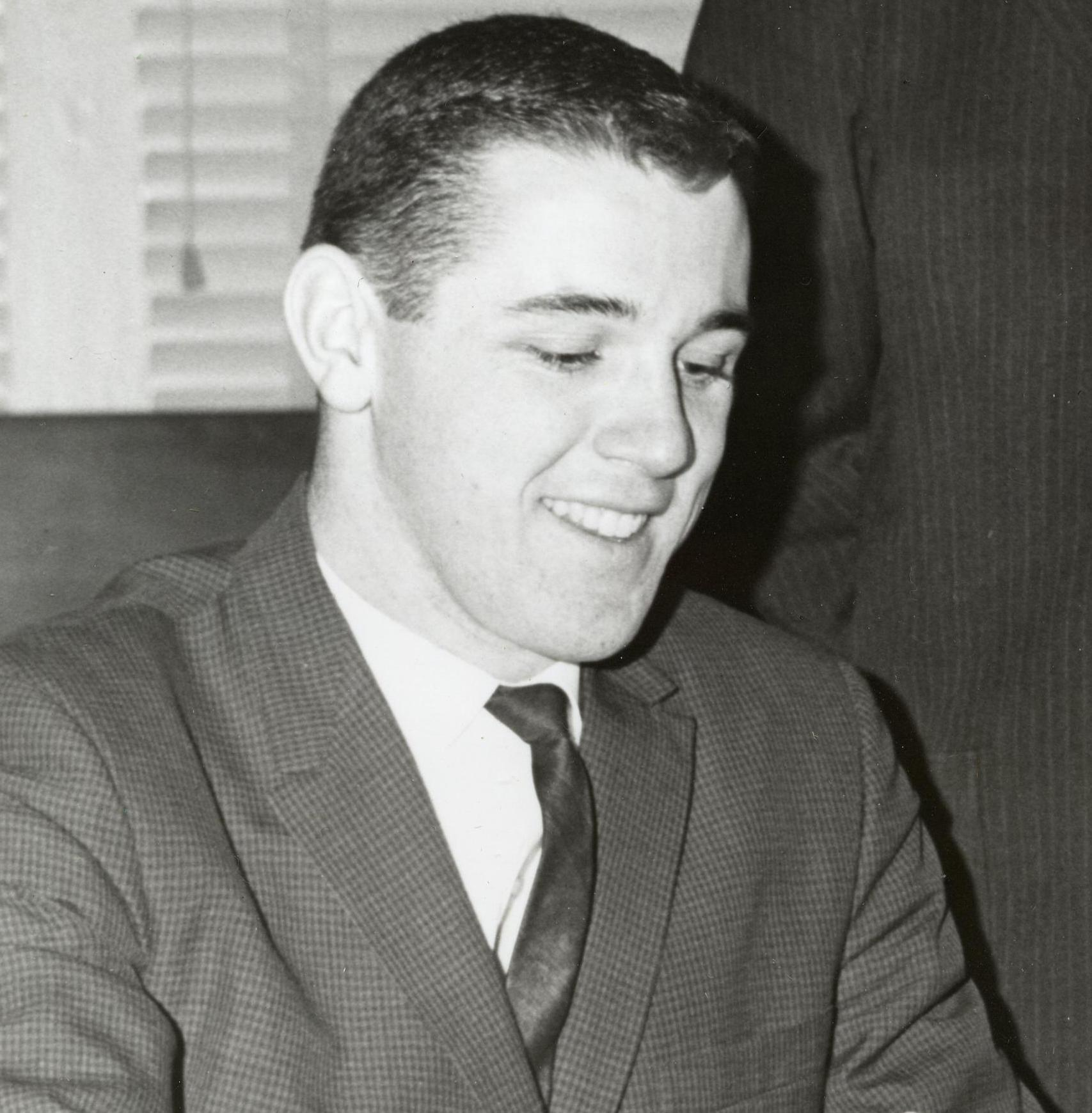 Title: Jack Concannon, Boston College Quarterback; Jack Concannon, Co-chairman of the Omelia Award Dinner; Mayor John F. Collins. Mayor John F. Collins proclaims December 13, 1962 as "Jack Concanoon Day" in tribute to Jack Concannon receiving the Omelia Trophy from the Holy Cross Club Creator: Anthony's Studio Date: circa 1960-1968 Source: Mayor John F. Collins records, Collection #0244.001 File name: 244001_0904 Rights: Rights status not evaluated Citation: Mayor John F. Collins records, Collection #0244.001, City of Boston Archives, Boston